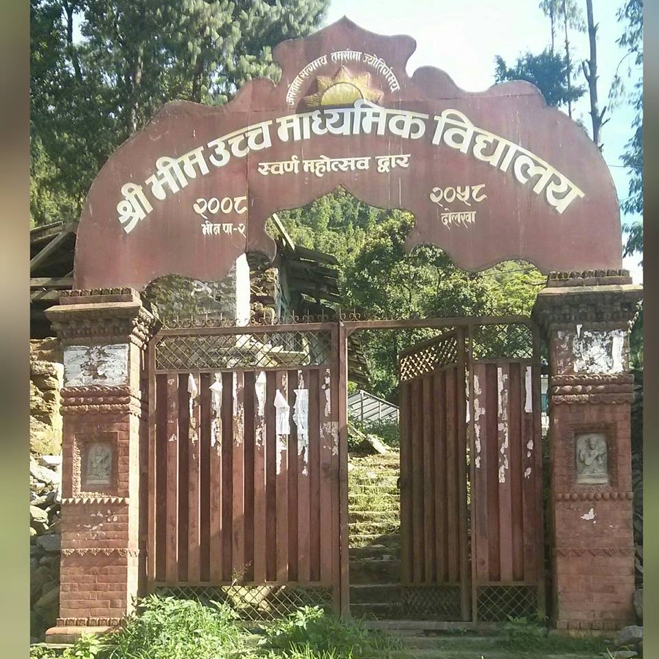 Golden Gate built on 50th Anniversary